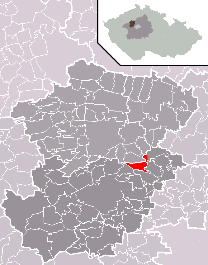 Location of Třebusice municipality within Kladno District and administrative area of Kladno as a Municipality with Extended Competence.